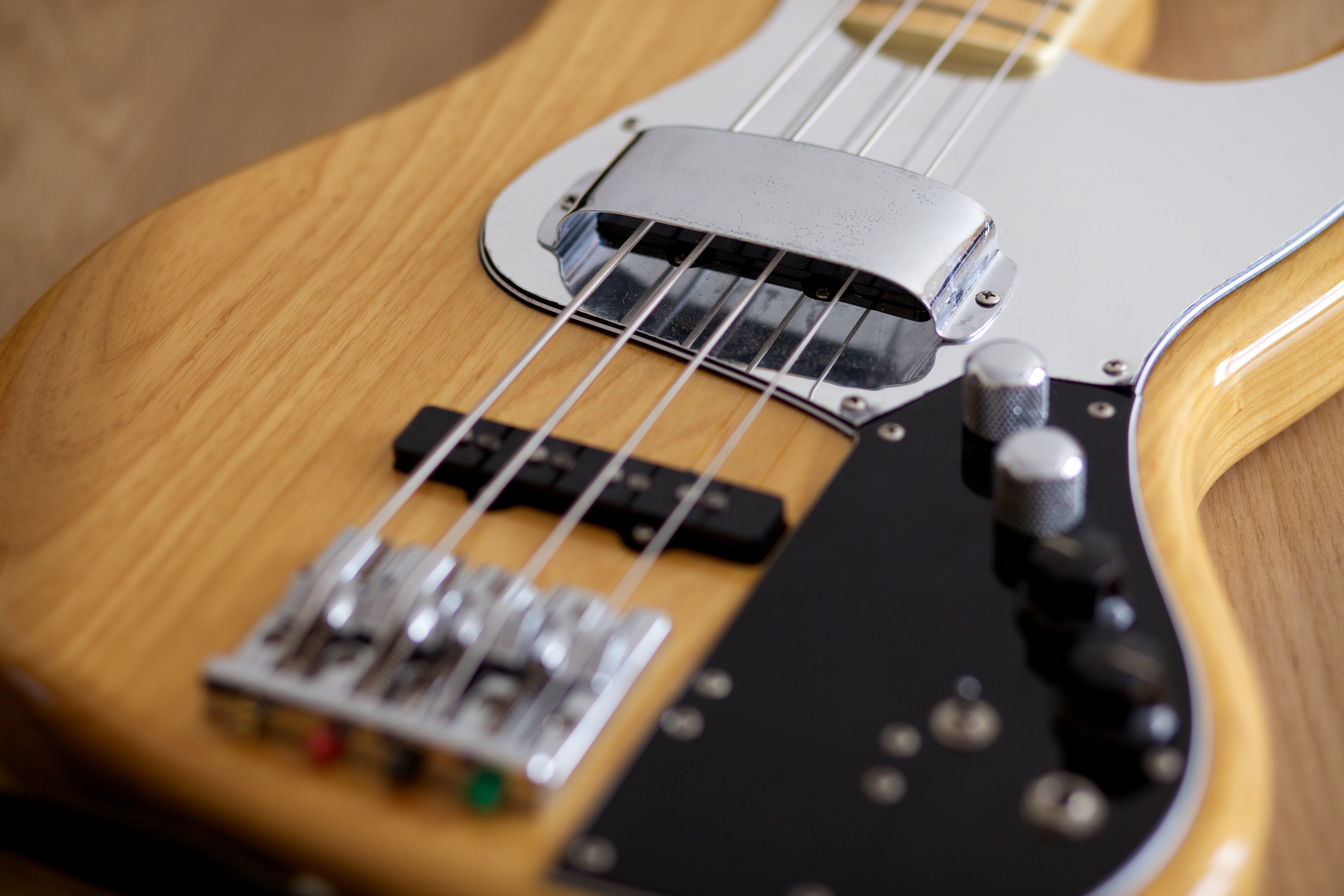 Fender Marcus Miller Jazz Bass autographed by Marcus Miller. Serial no. Q074671 Made in Japan Features: Natural finish (clear lacquer) Maple fingerboard with white inlays Two-band active EQ Badass® Bass II bridge Comes with 3 pick guards: original 3-ply black, white and chrome. The bass has a clear lacquer chip on the side, this can easily be fixed.